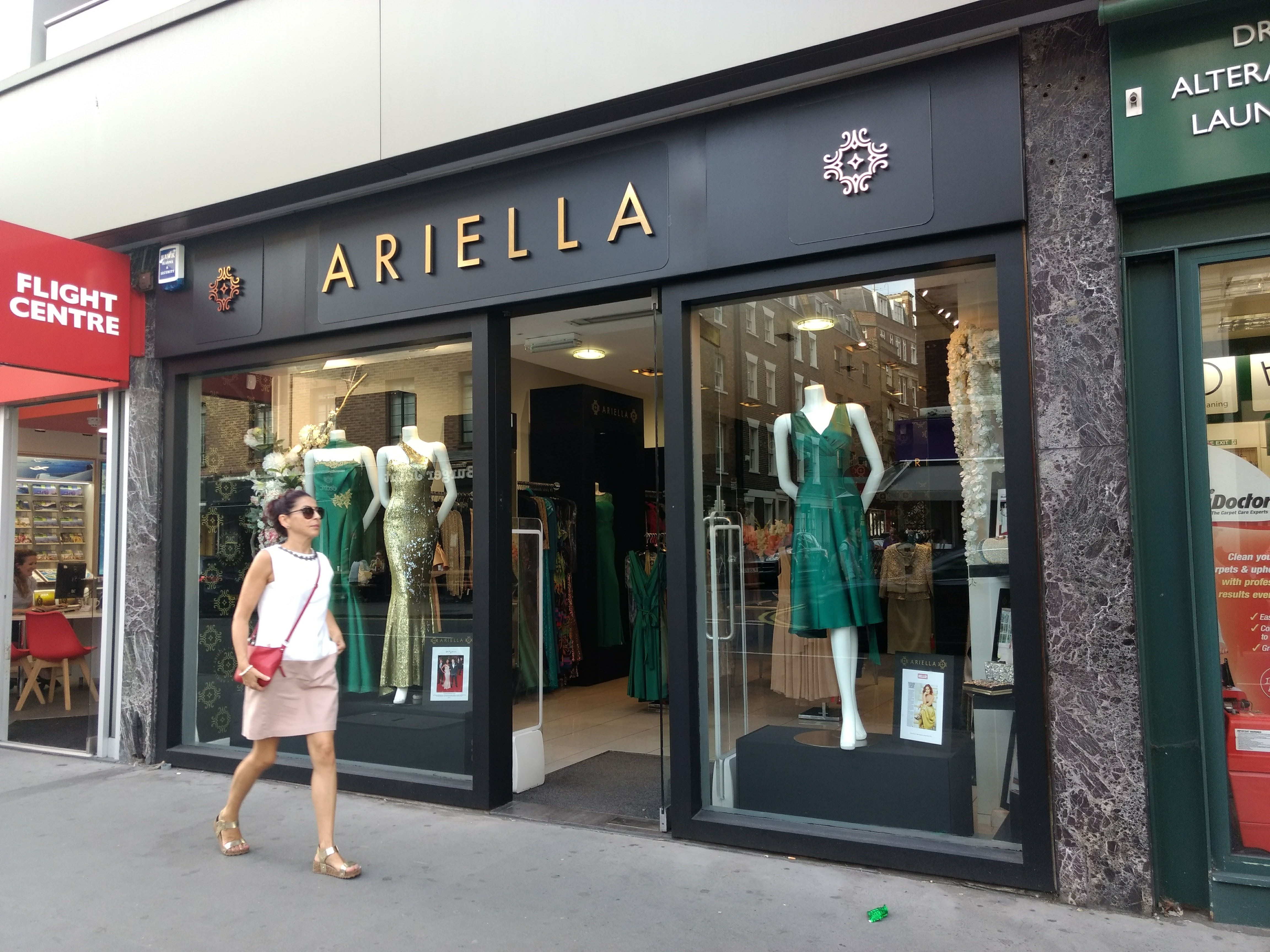 London